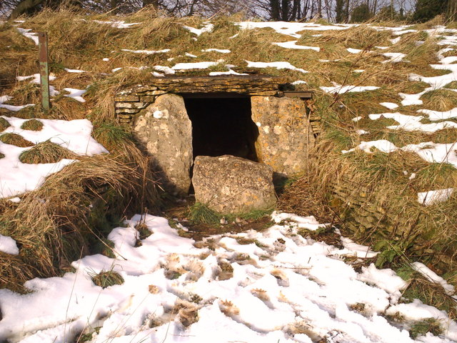 The only remaining burial chamber of the Lanhill long barrow.